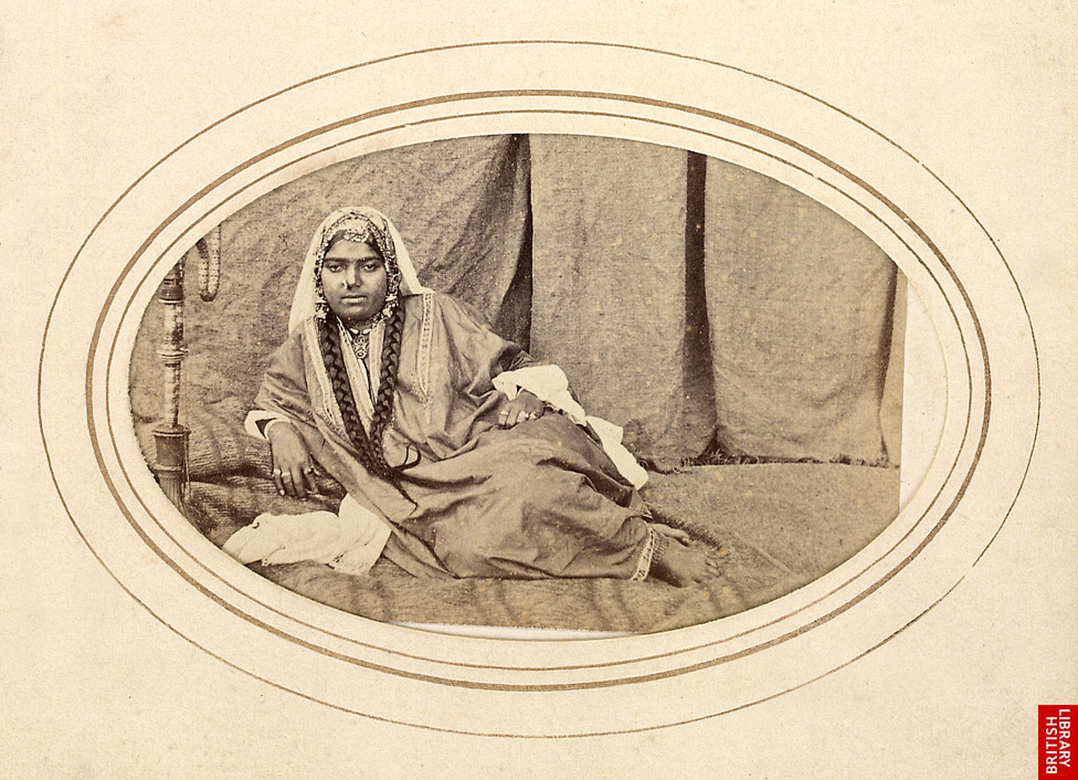 Cashmere nautch girl; a photo by Samuel Bourne, 1860's* (BL) [*Bourne 1860's 1*]